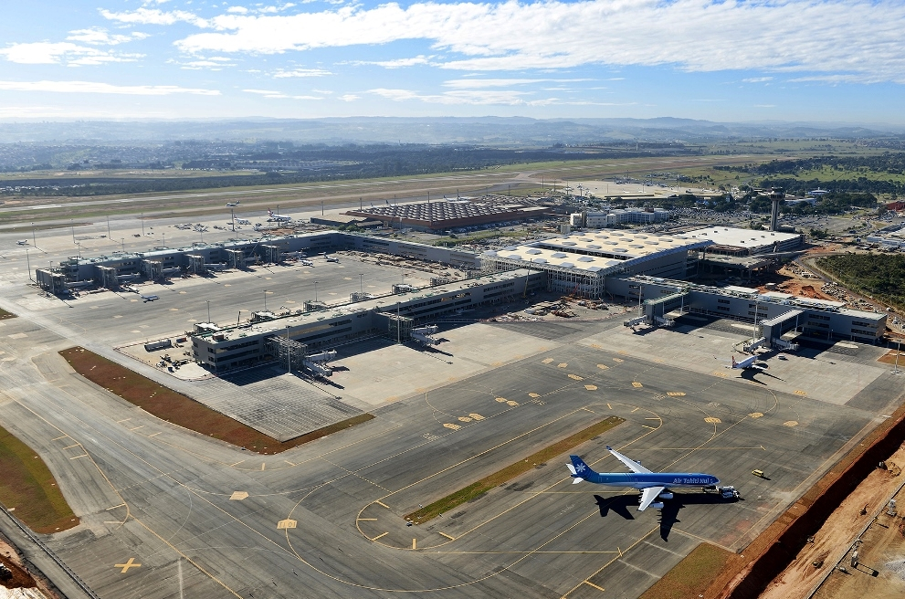 Aeroporto Internacional de Viracopos, Campinas, Brasil